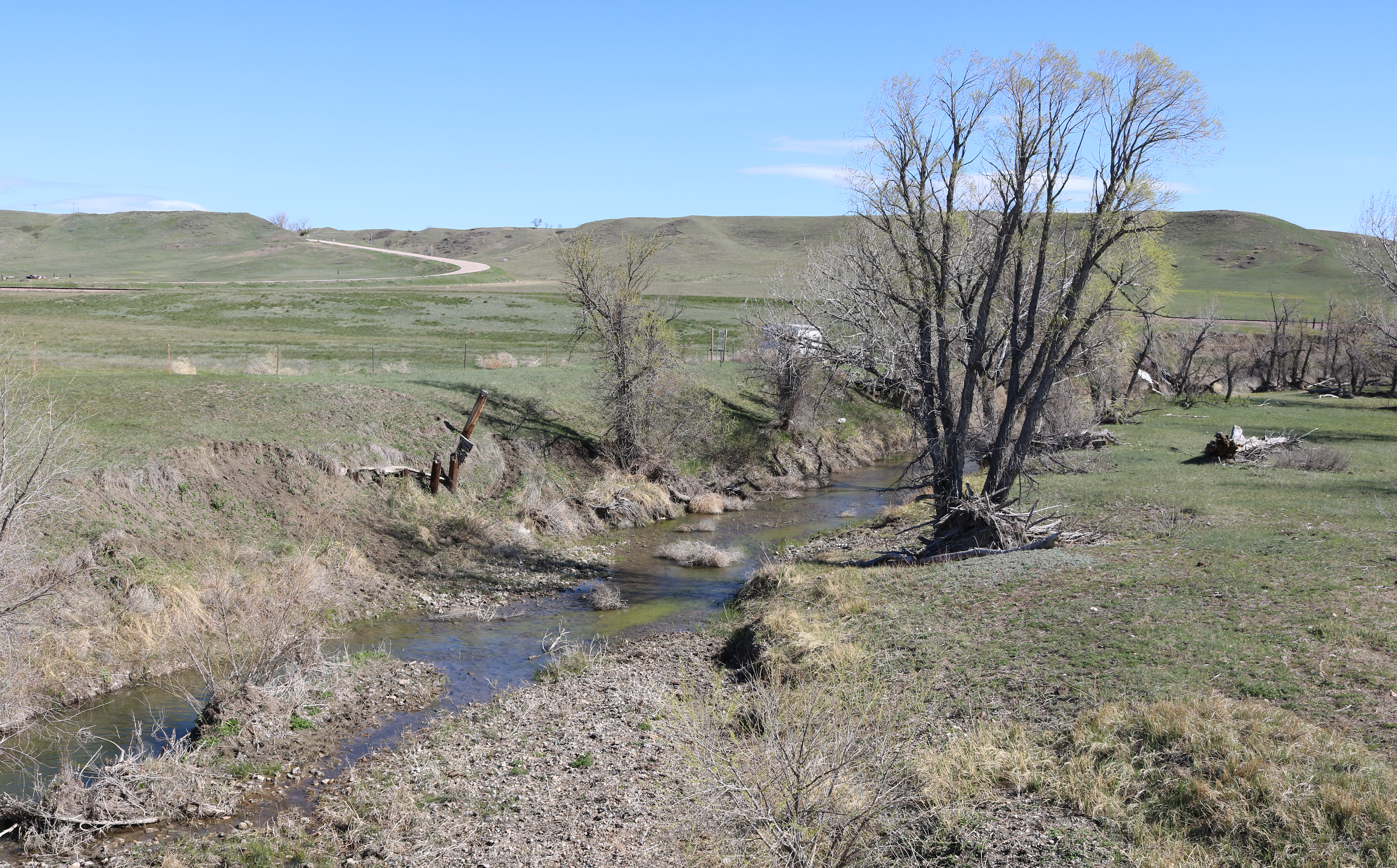 Boxelder Creek, near Owanka, South Dakota in Pennington County. The curved road visible at center-left is 173rd Avenue.